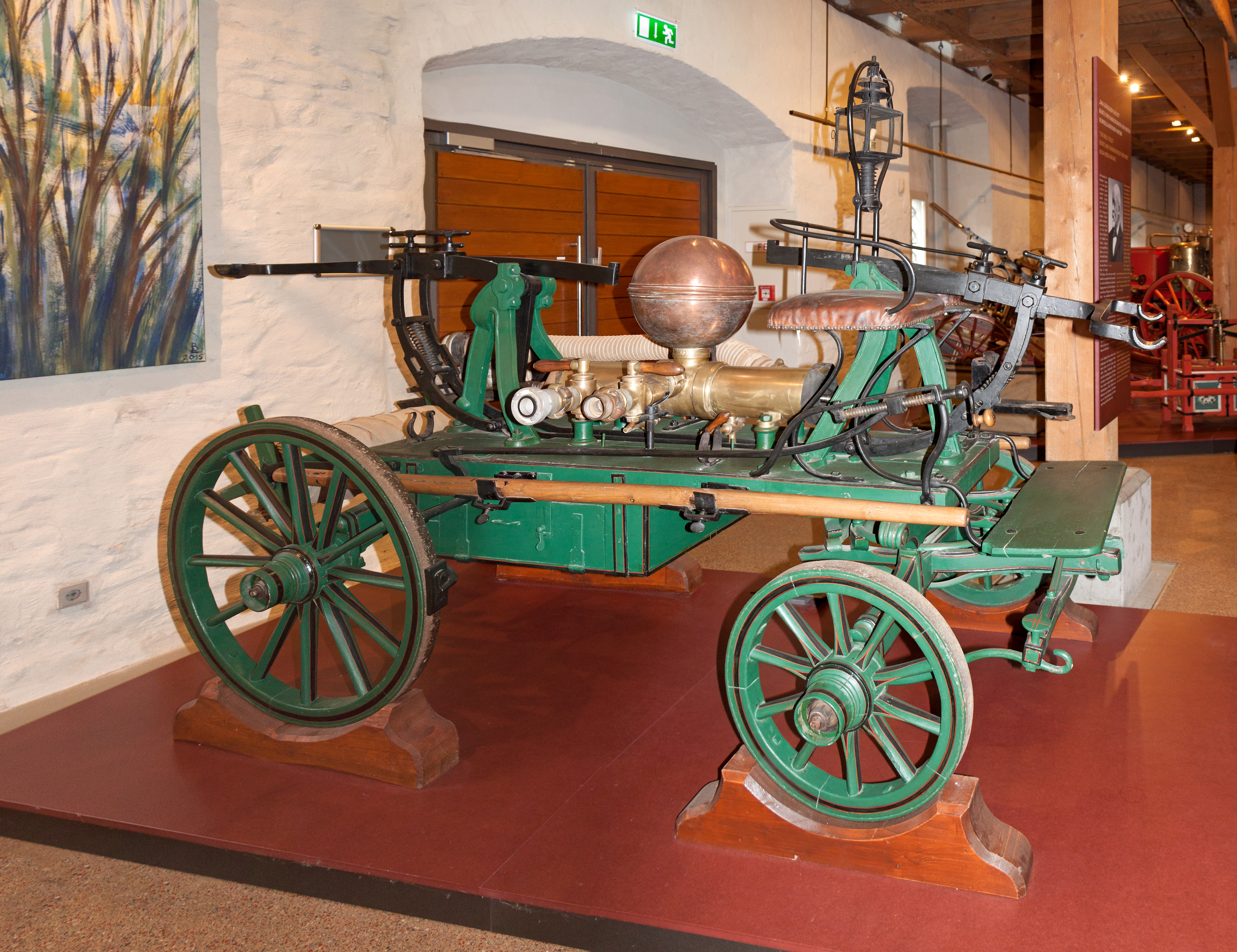 Horse-drawn hydrophor by Heinrich Kurtz, 1890, Stuttgart, Germany; Feuerwehrmuseum Salem, Baden-Württemberg, Germany.